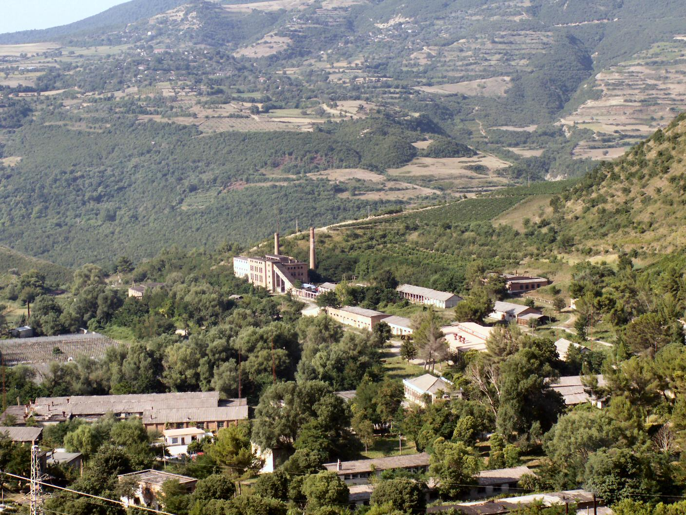 Driving Albania 111 - Old Weapon Factory